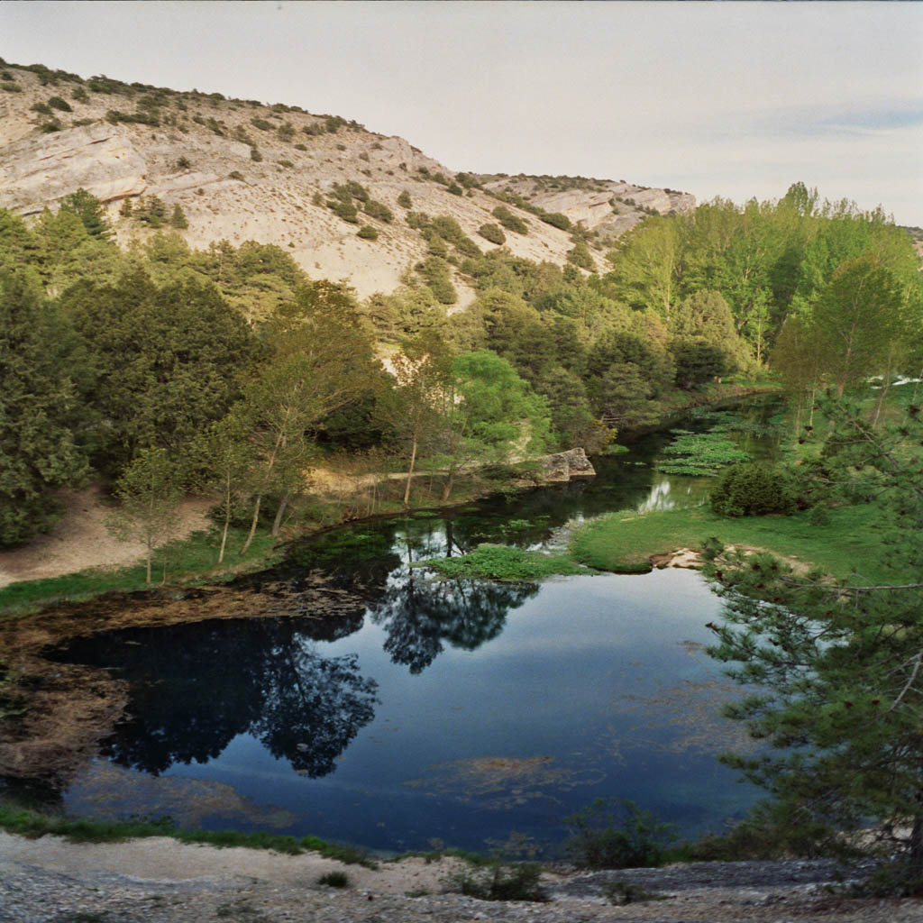 large karst spring in protected topography Monumento Natural de la Fuentona, Spain